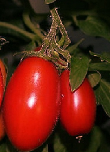 Variety of tomato Fiaschello Battipagliese - Campania - Italy